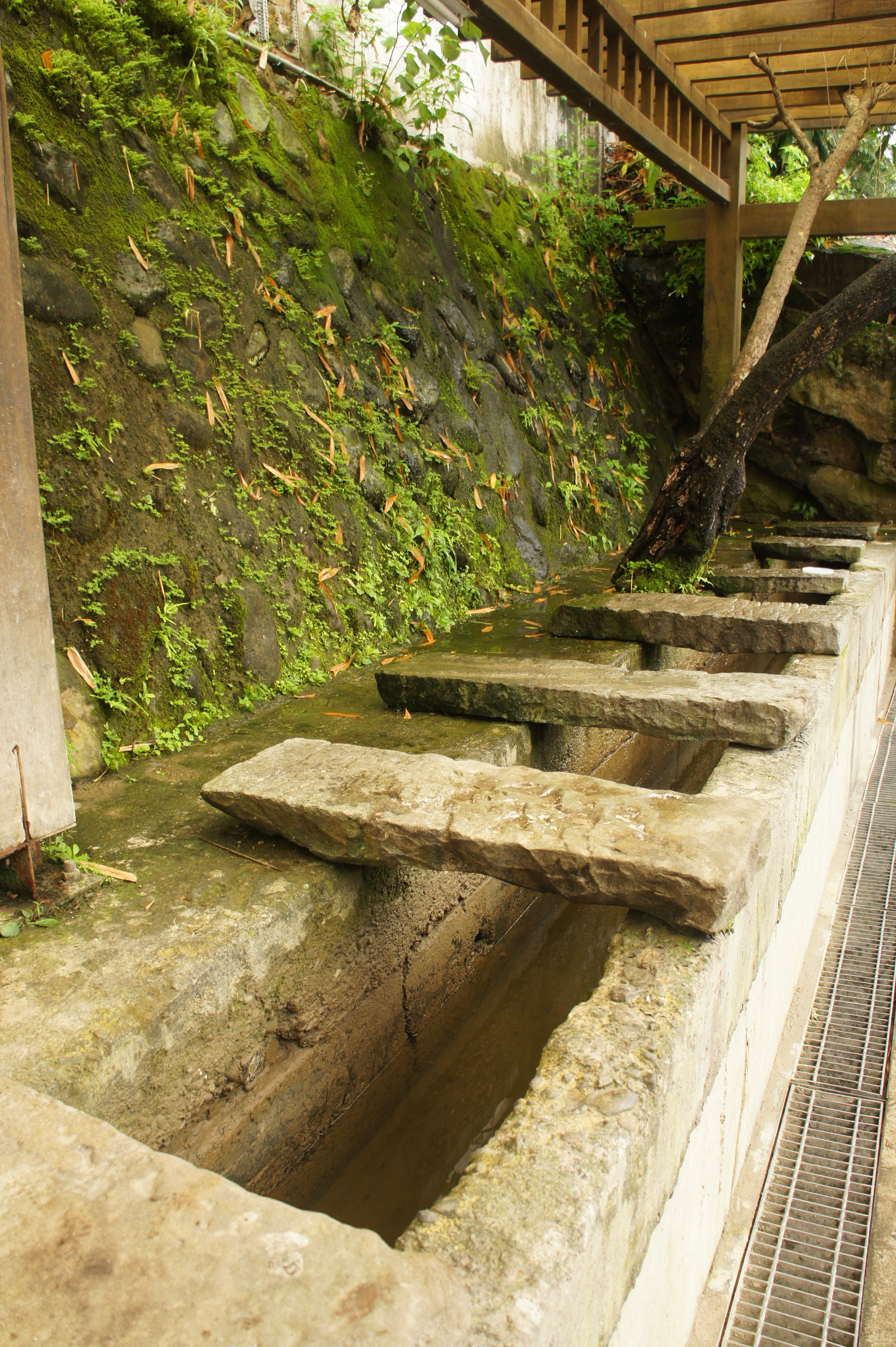 The old laundry station (Xishankeng), Nanzhuang Old Street, Nanzhuang, Miaoli County, Taiwan.